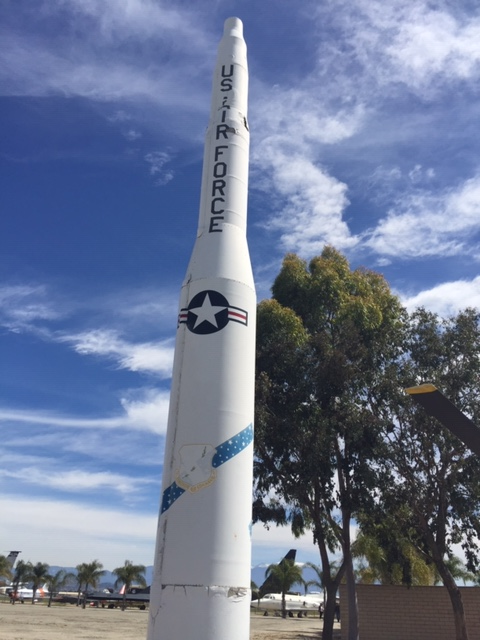 Minuteman II ICBM near entrance to March AFB museum